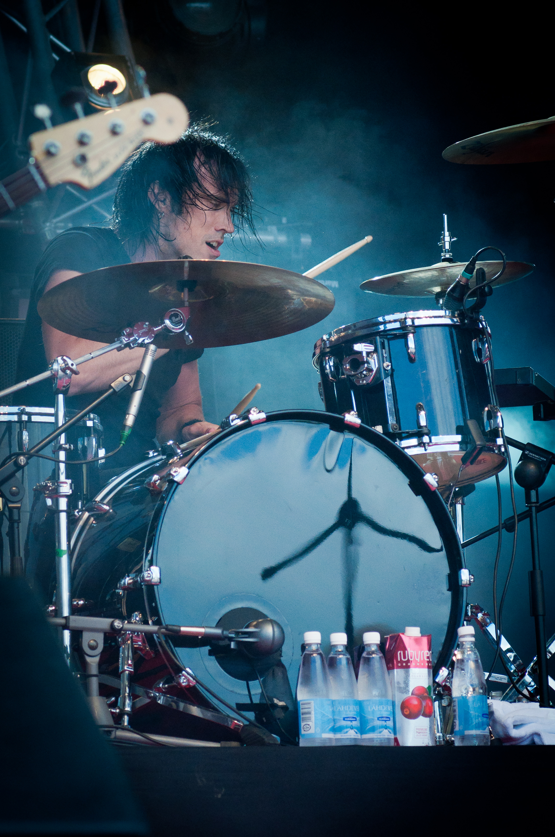 Finnish drummer Karl Rockfist performing at the 2011 Ilosaarirock festival in Joensuu, Finland with Michael Monroe.